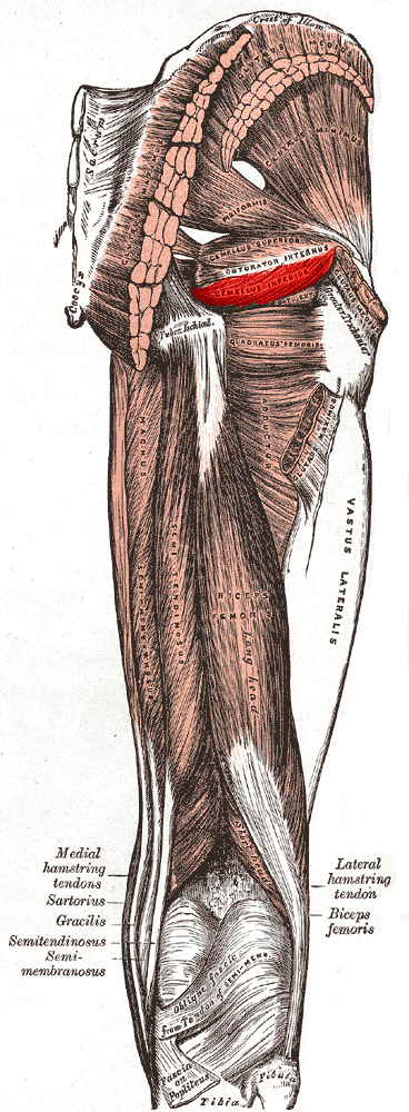 Muscles of the gluteal and posterior femoral regions with current muscle highlighted